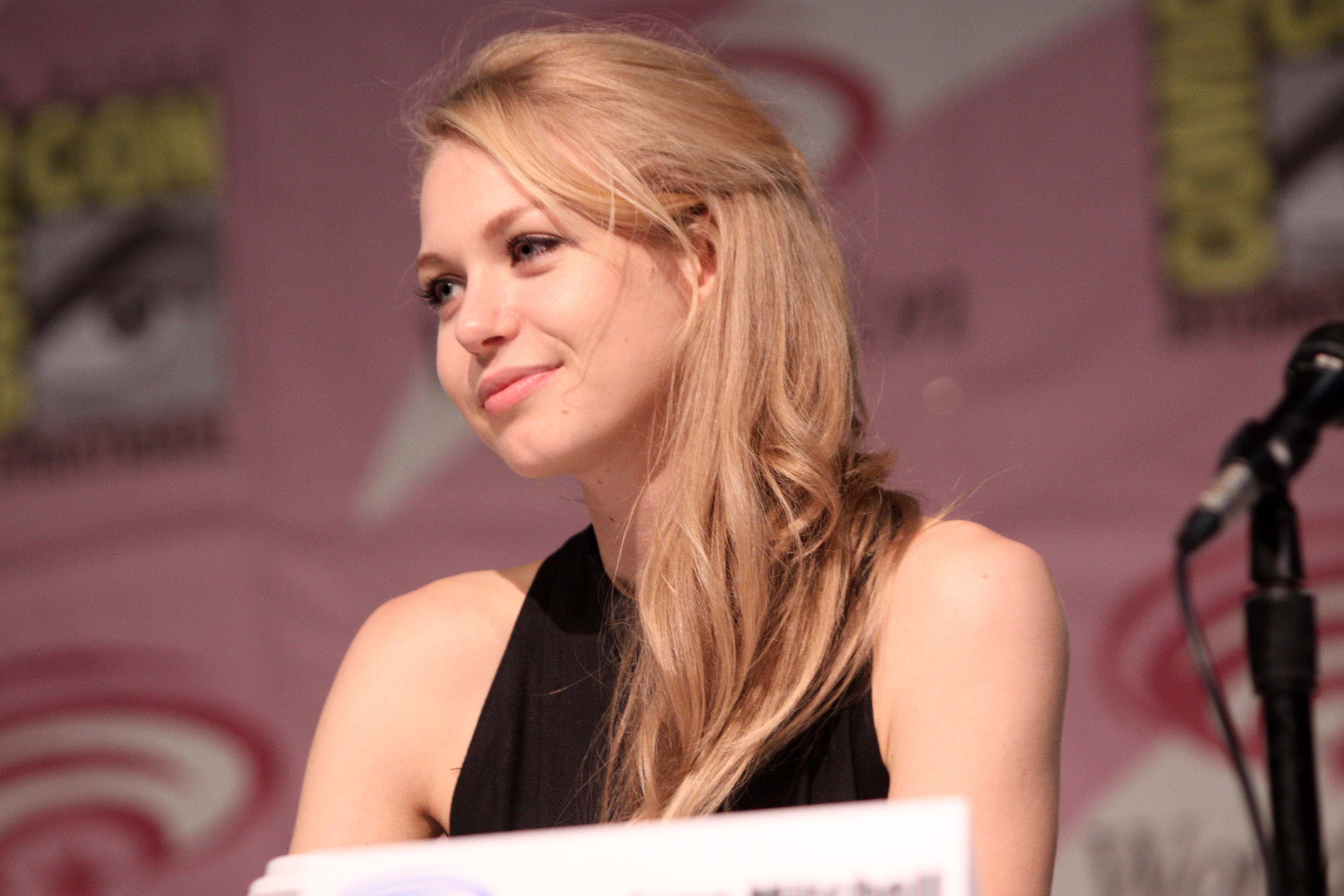 Penelope Mitchell speaking at the 2013 WonderCon at the Anaheim Convention Center in Anaheim, California.